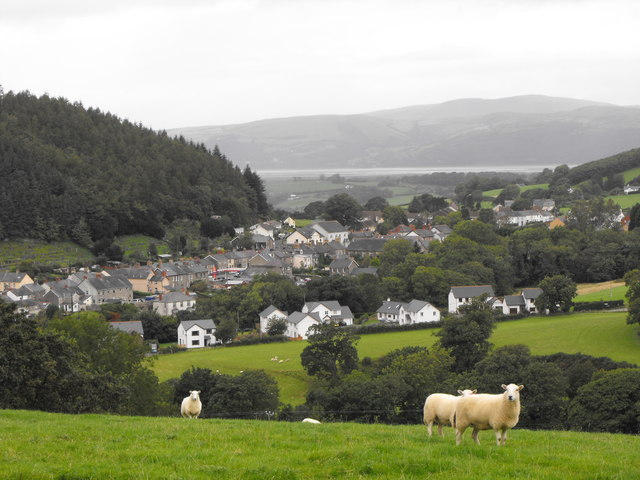 Tal-Y-Bont and beyond, looking across to the Dovey estuary.